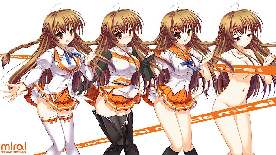 Mirai Suenaga in her winter uniform, solar marine uniform, summer school uniform, and birthday uniform by Mikeou.